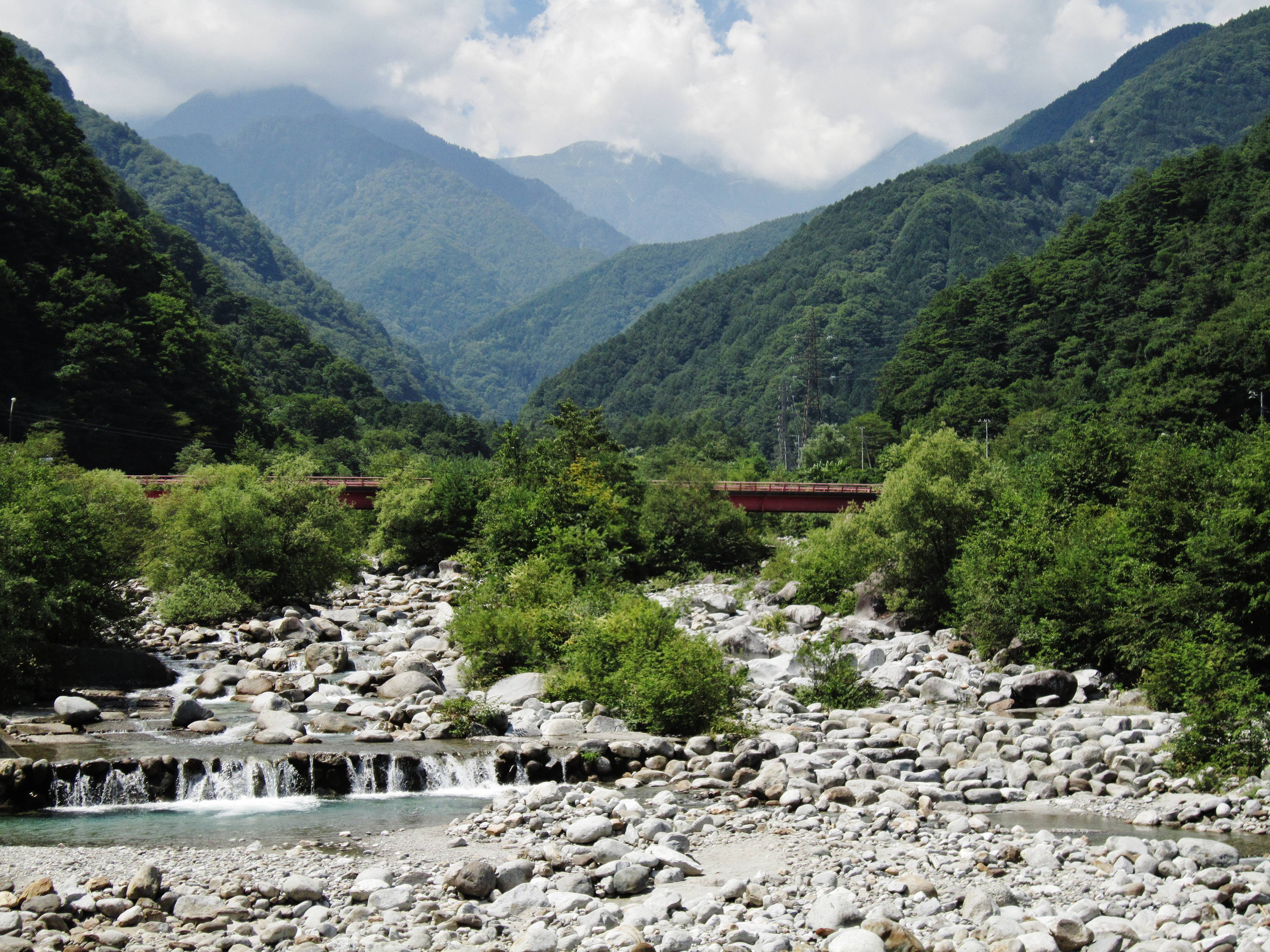 Ōtagiri River Komagane Bridge.